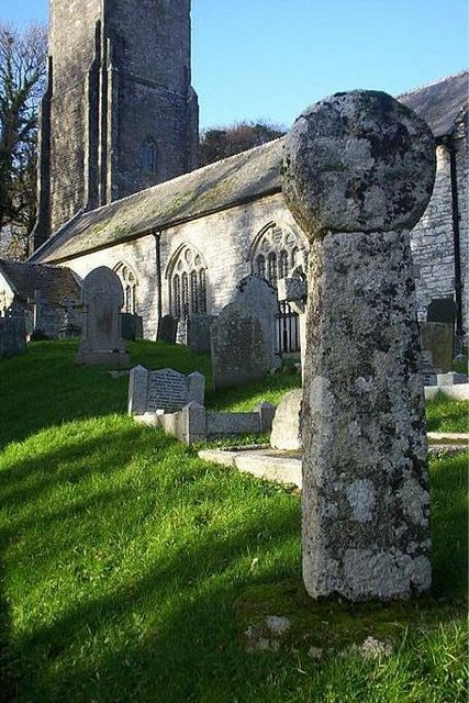 St Nonna's Celtic Cross at Altarnun Dating back to the 6th century and probably still in the same situation for over 1400 years.